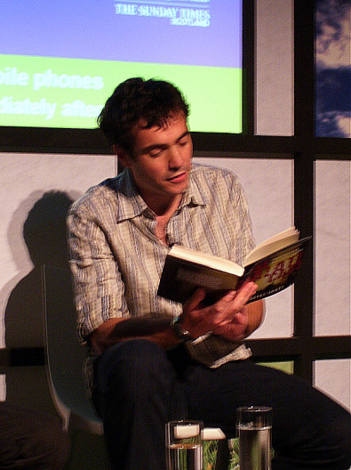 Tobias Jones, author, reading at the Edinburgh International Book Festival, 2009.